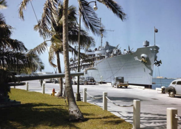 The U.S. Navy submarine tender USS Howard W. Gilmore (AS-16) moored at Naval Station Key West, Florida (USA), in 1949.